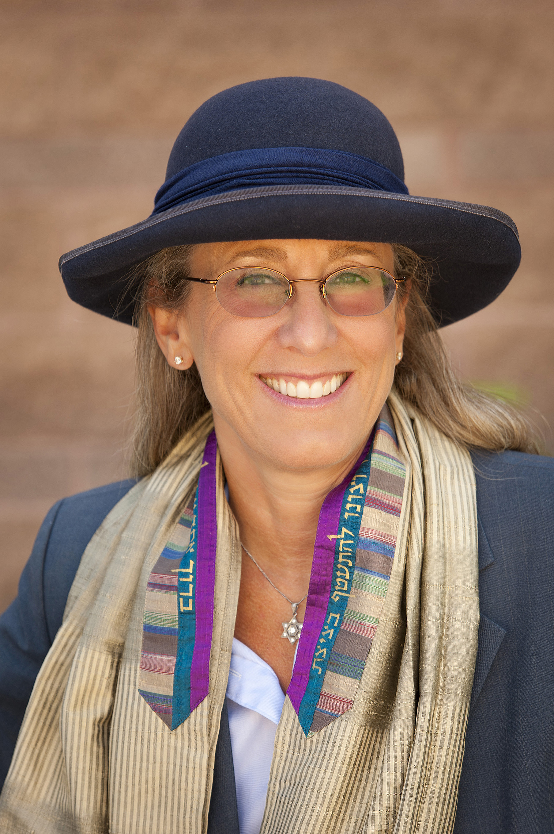 Self portrait of Rabbi Bonnie Koppell